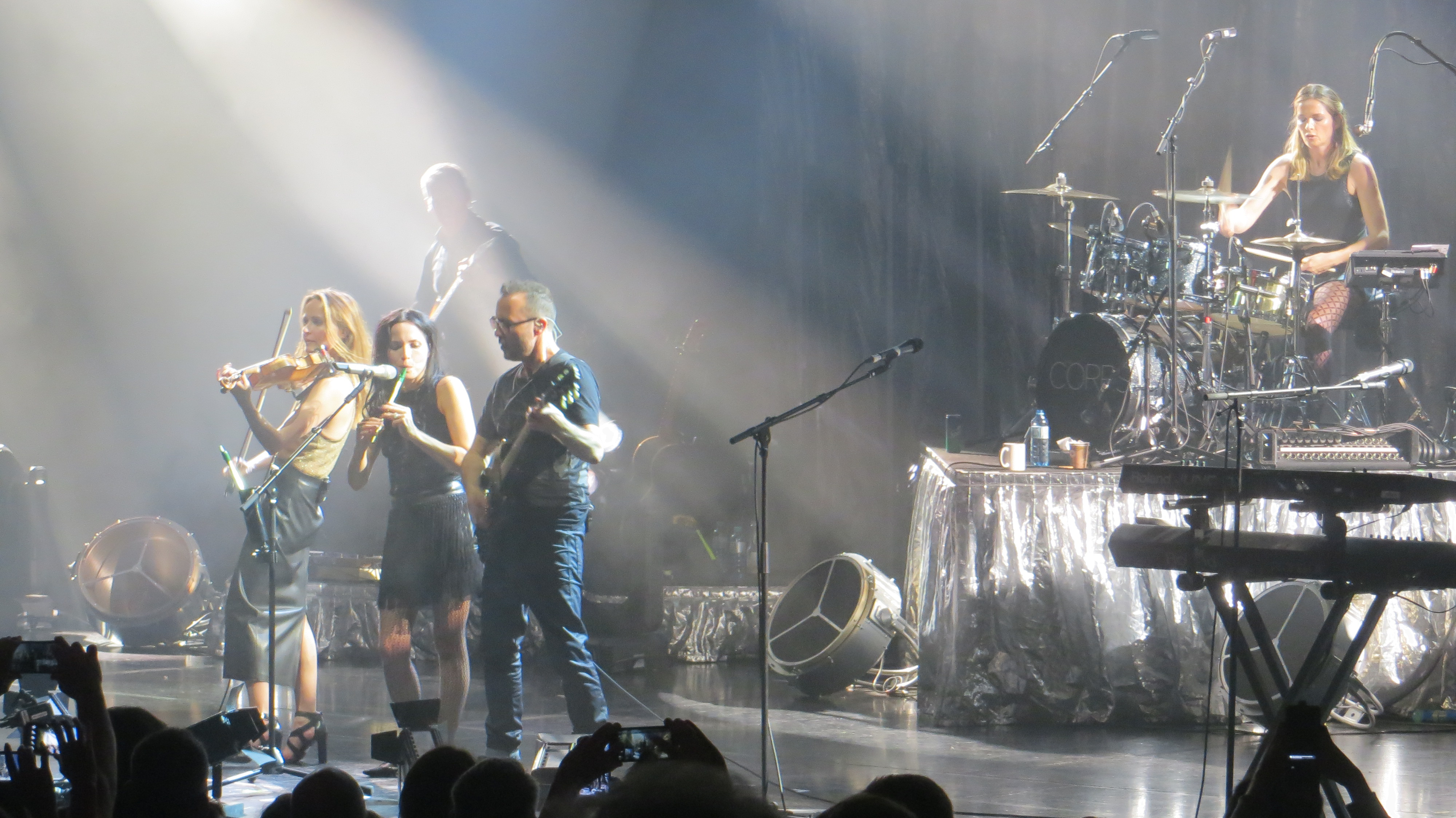 The Corrs in Vienna (Stadthalle, 2016)